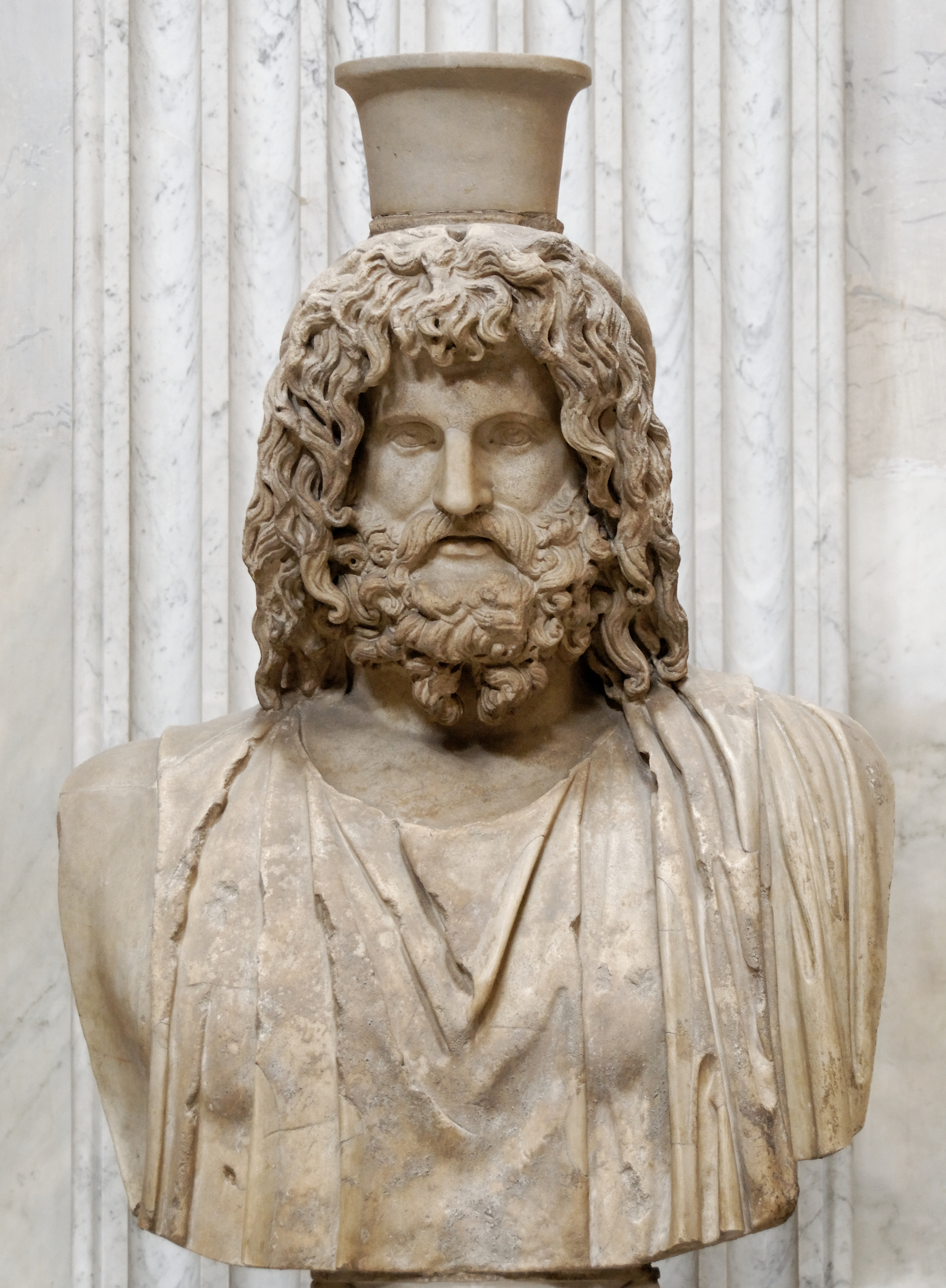 Bust of Serapis. Marble, Roman copy after a Greek original from the 4th century BC, stored in the Serapaeum of Alexandria.